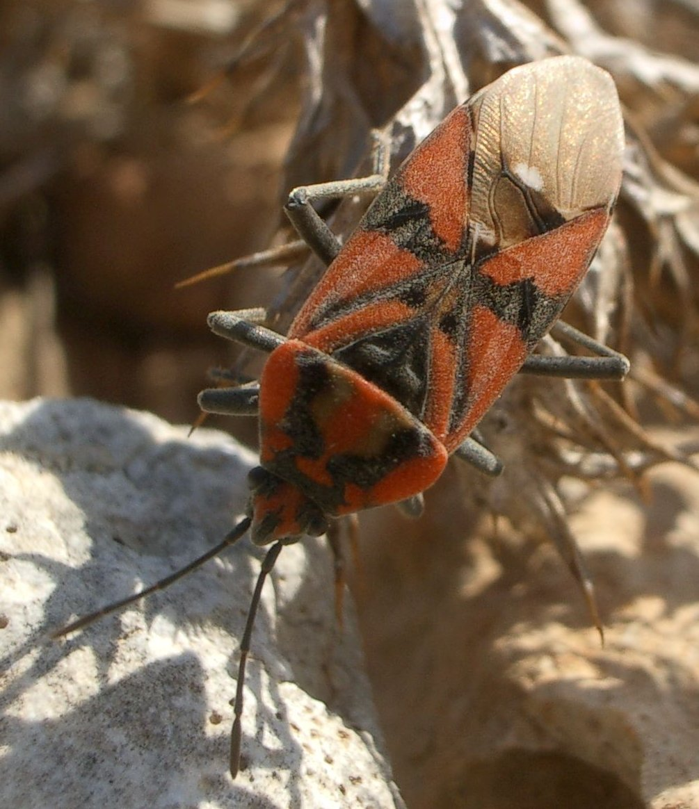 Description: Spilostethus pandurus (female)